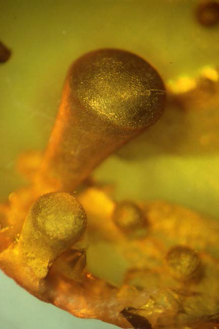 The clavarioid fungus, Palaeoclavaria burmitis, in Burmese amber.